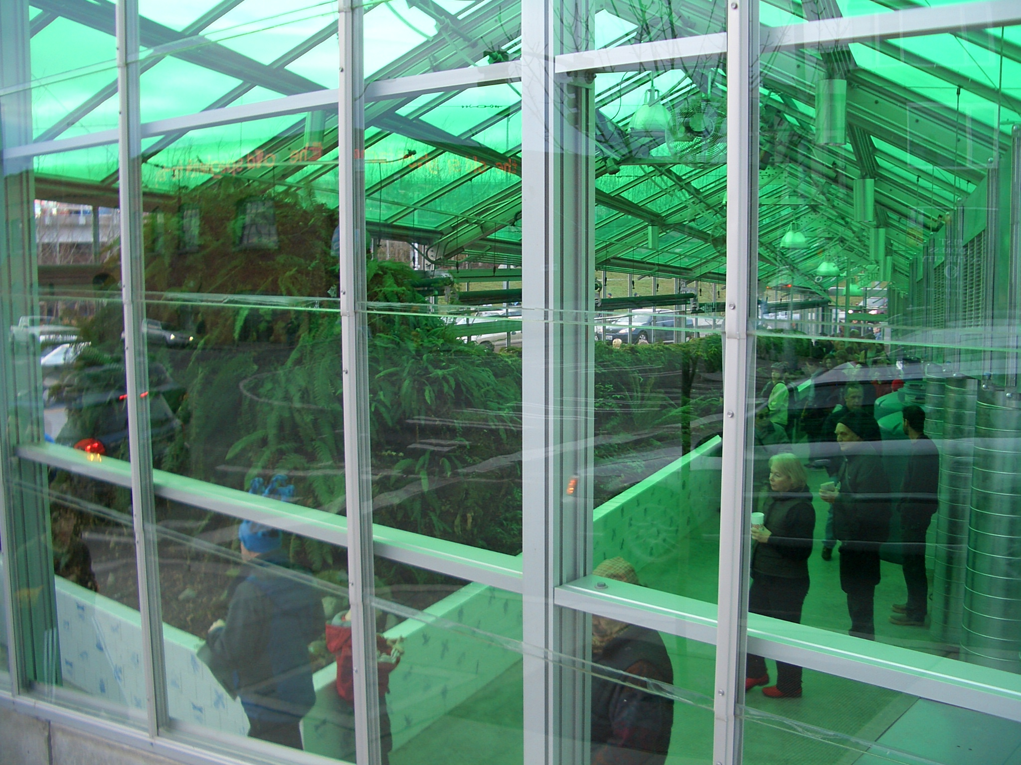 Citizens of Seattle filing thru Neukom Vivarium, paying their respects to the dead tree. (At the Grand Opening day of Olympic Sculpture Park.)